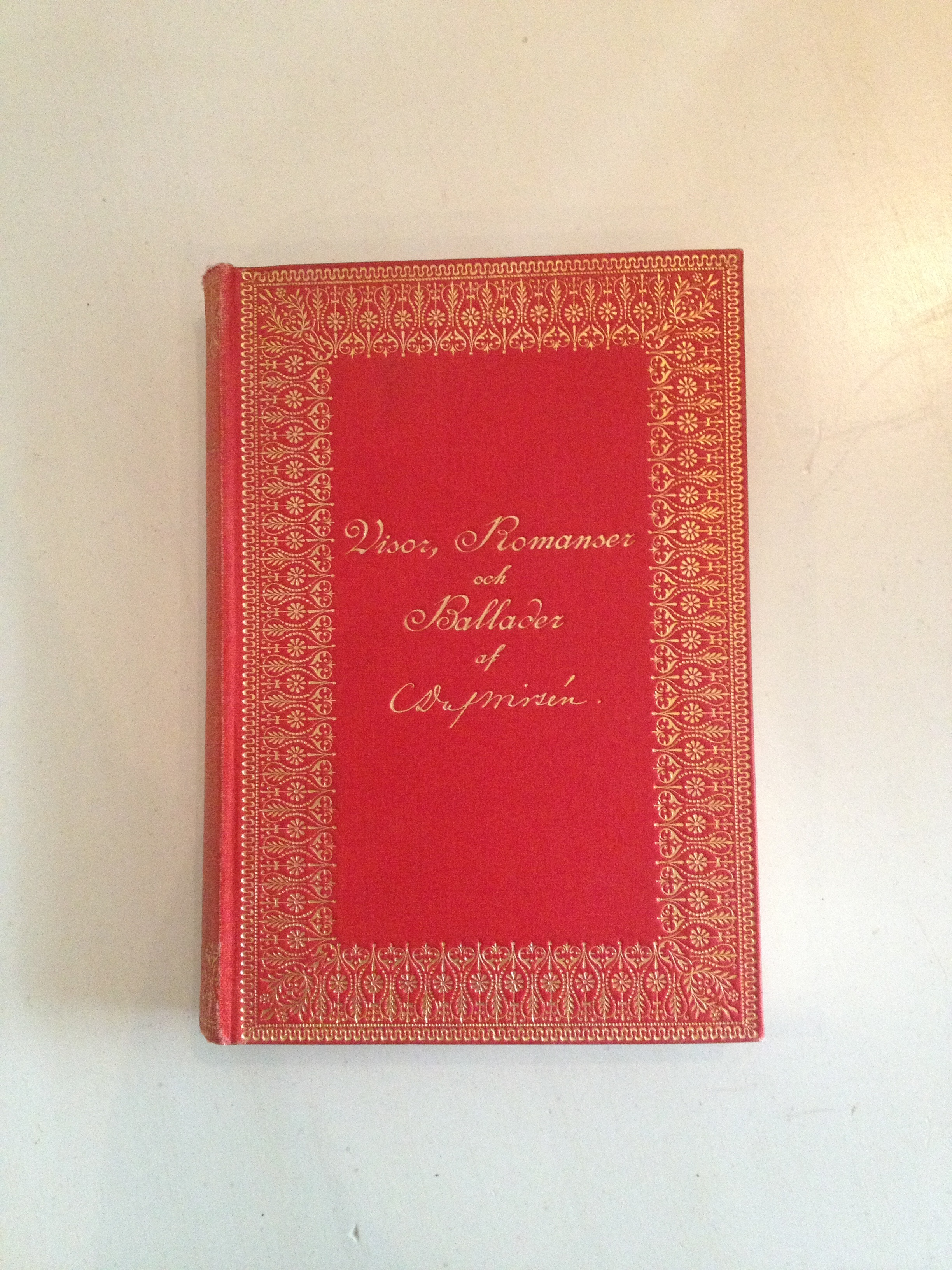 The front cover of Carl David af Wirsén's collection of poetry "visor, romanser och ballader" from 1899.